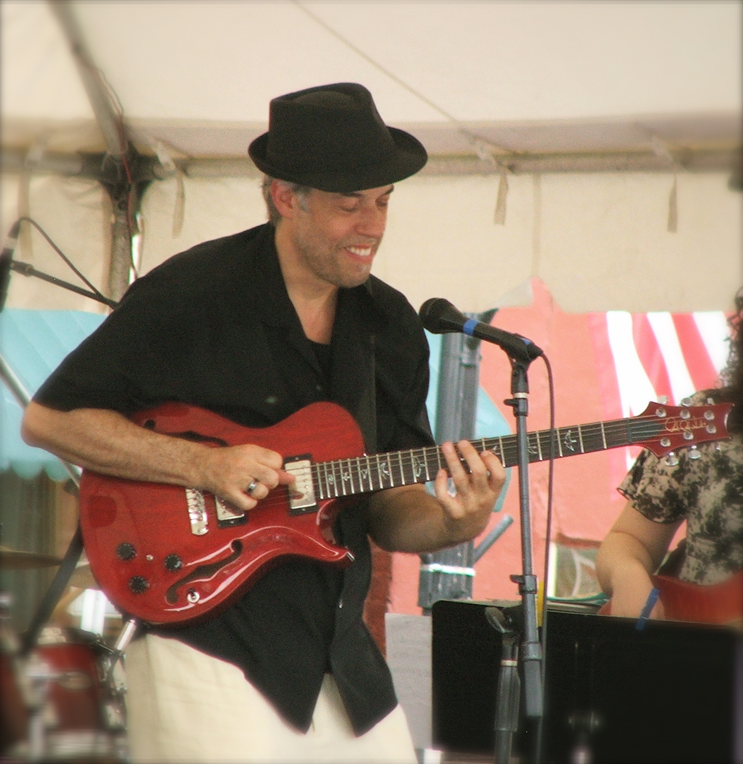 Watertown Jazz Festival